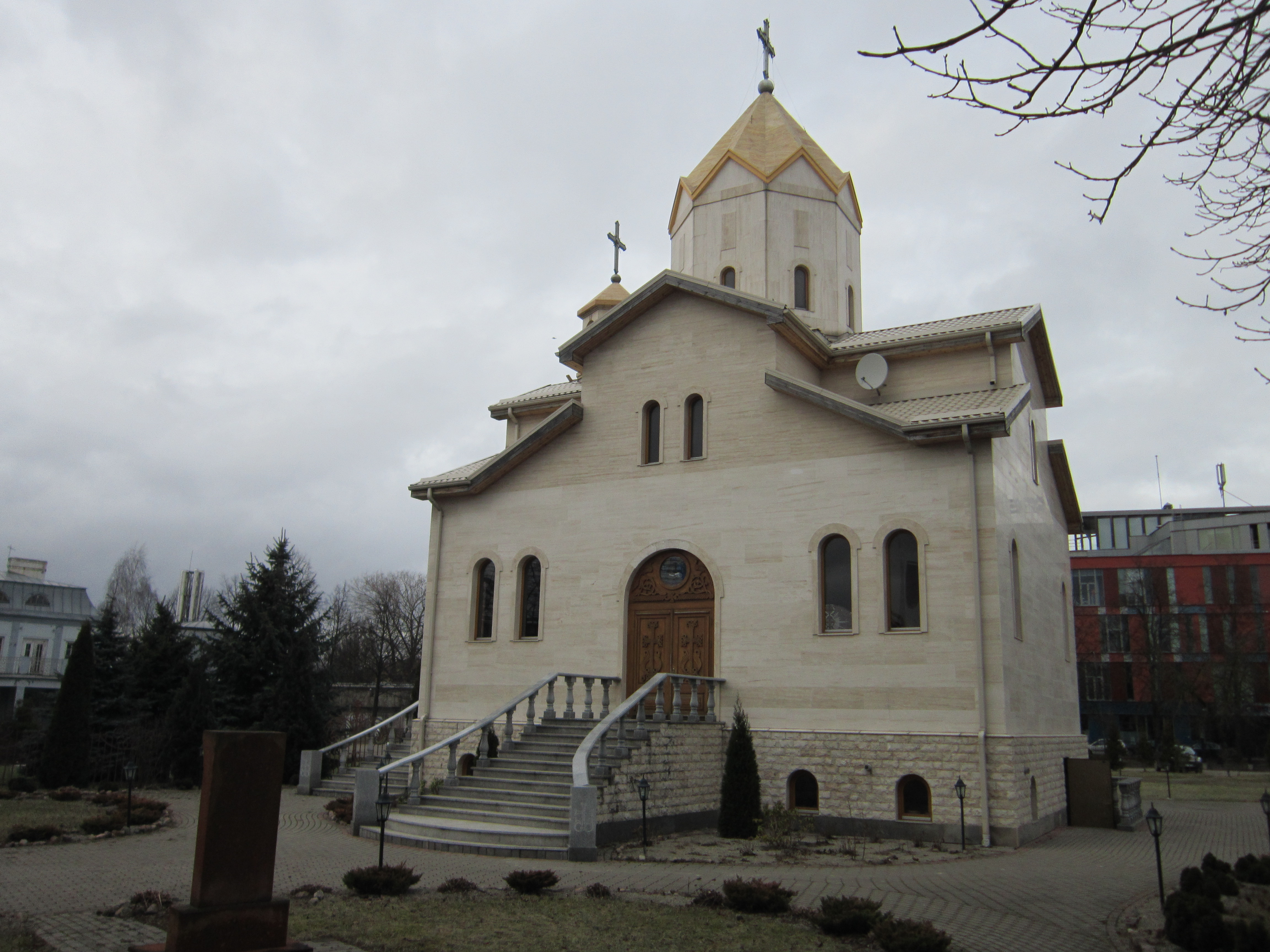 St Grigor Lusavorich Armenian Church in Riga